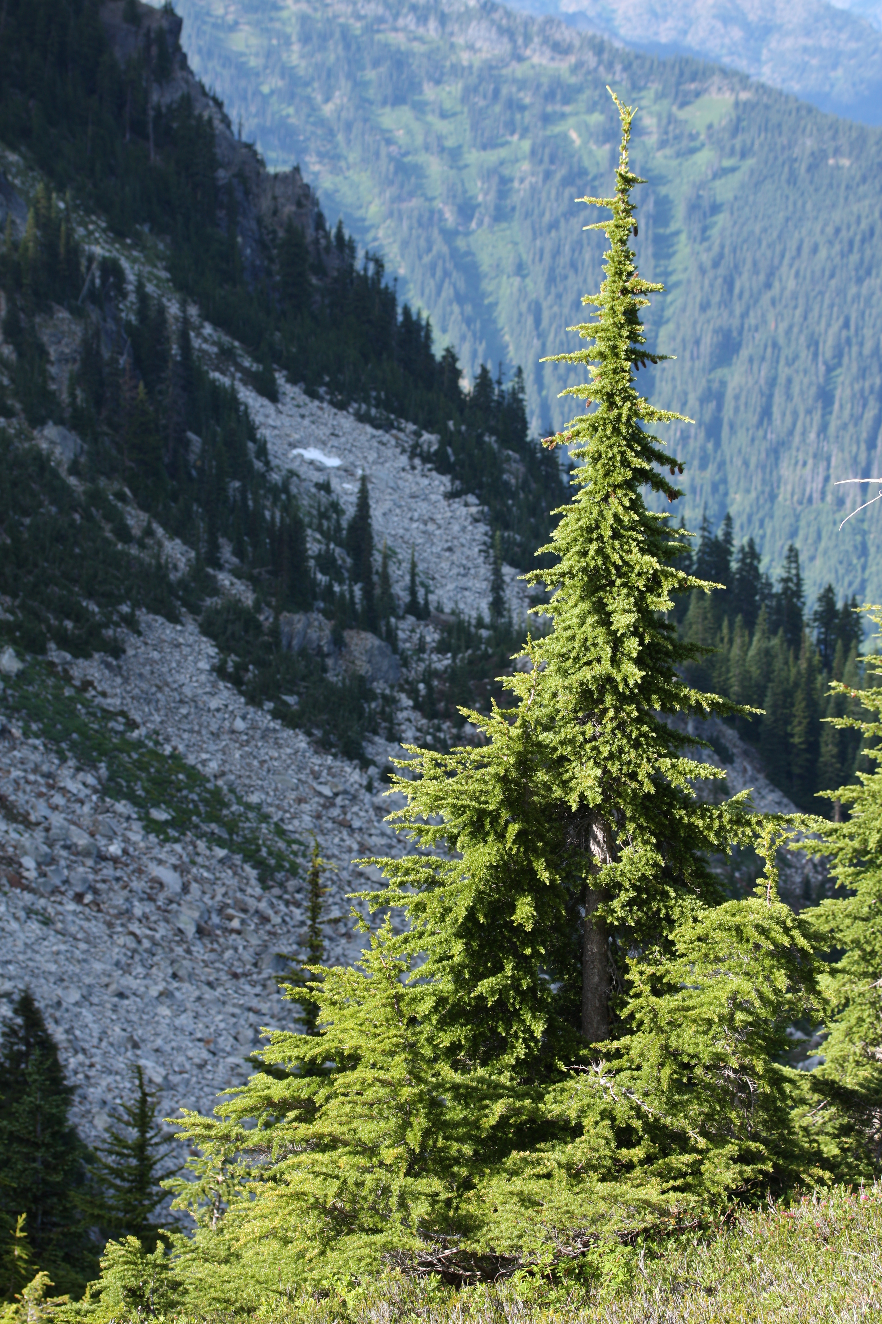 Mountain Hemlock Tsuga mertensiana, Minotaur Lake Trail N° 1517, Henry M. Jackson Wilderness, Washington, USA. The cones are old crop from 2007 (open, brown).